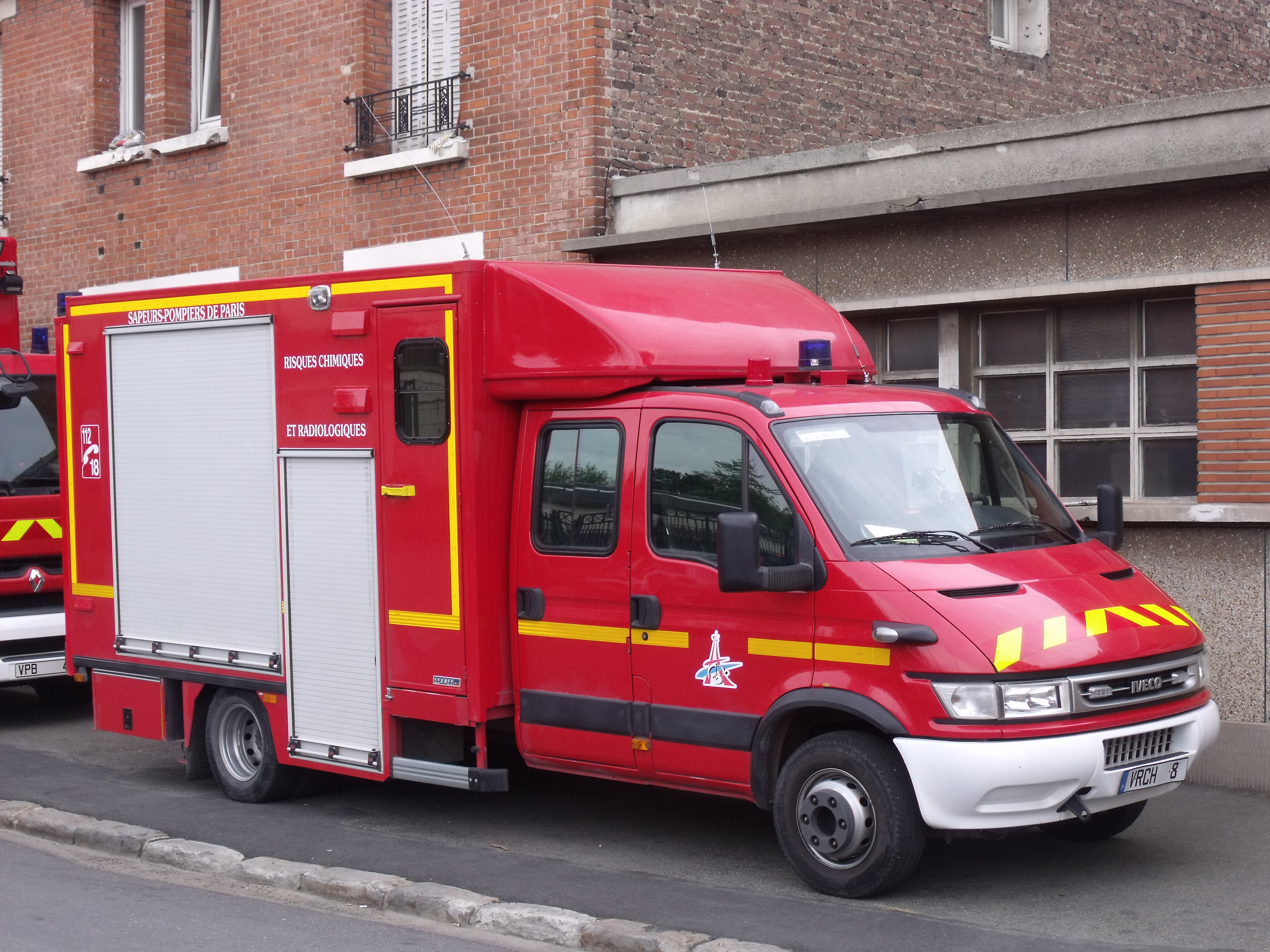 Used for Hazmat missions in Paris and suburb.